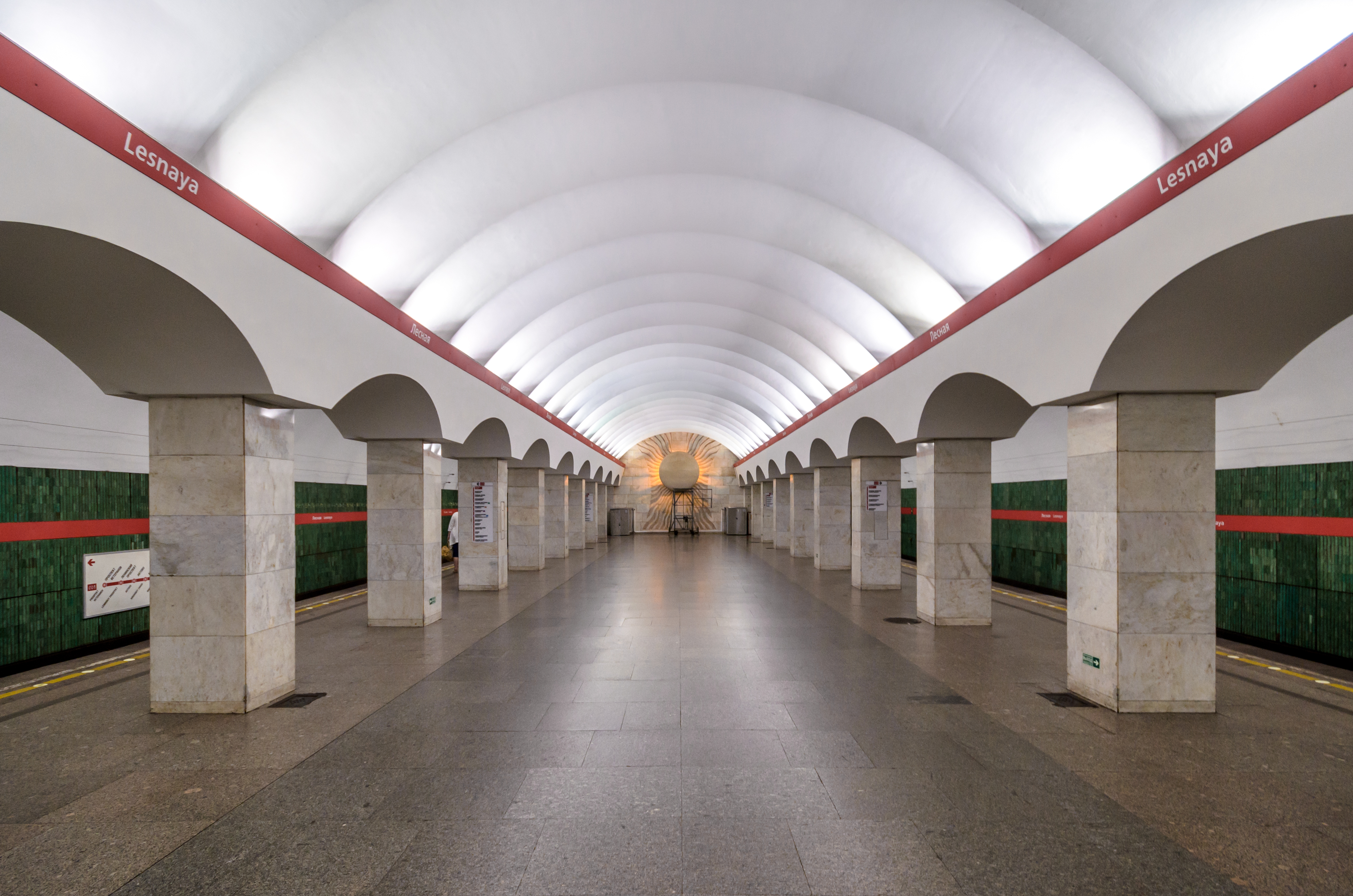 Lesnaya station of Saint Petersburg Subway